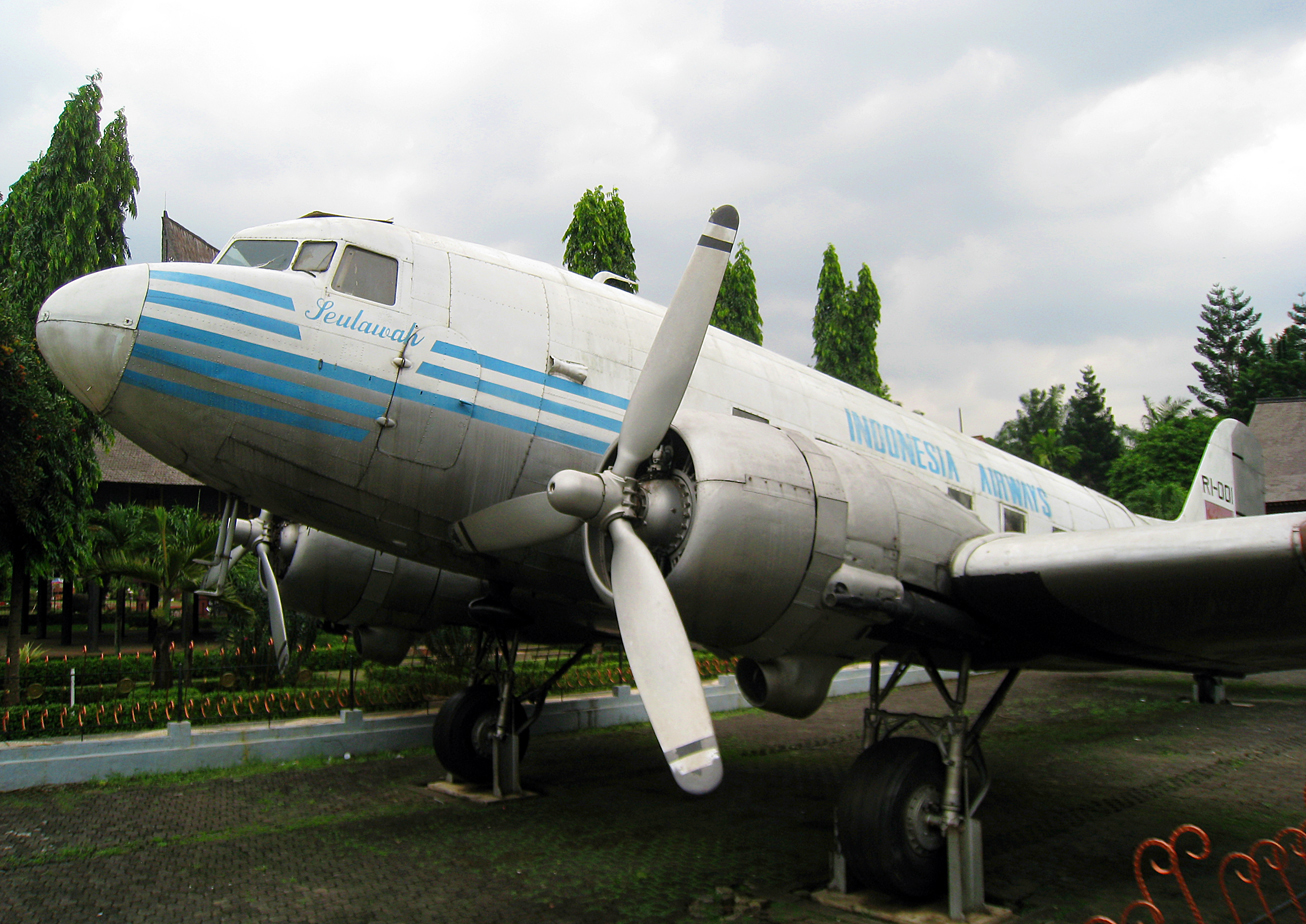 Douglas DC-3 Seulawah Indonesian Airways RI-001. The first Indonesian aircraft, donated by Acehnese people in 1949. Now the historic airplane is in display at Aceh pavilion, Taman Mini Indonesia Indah.